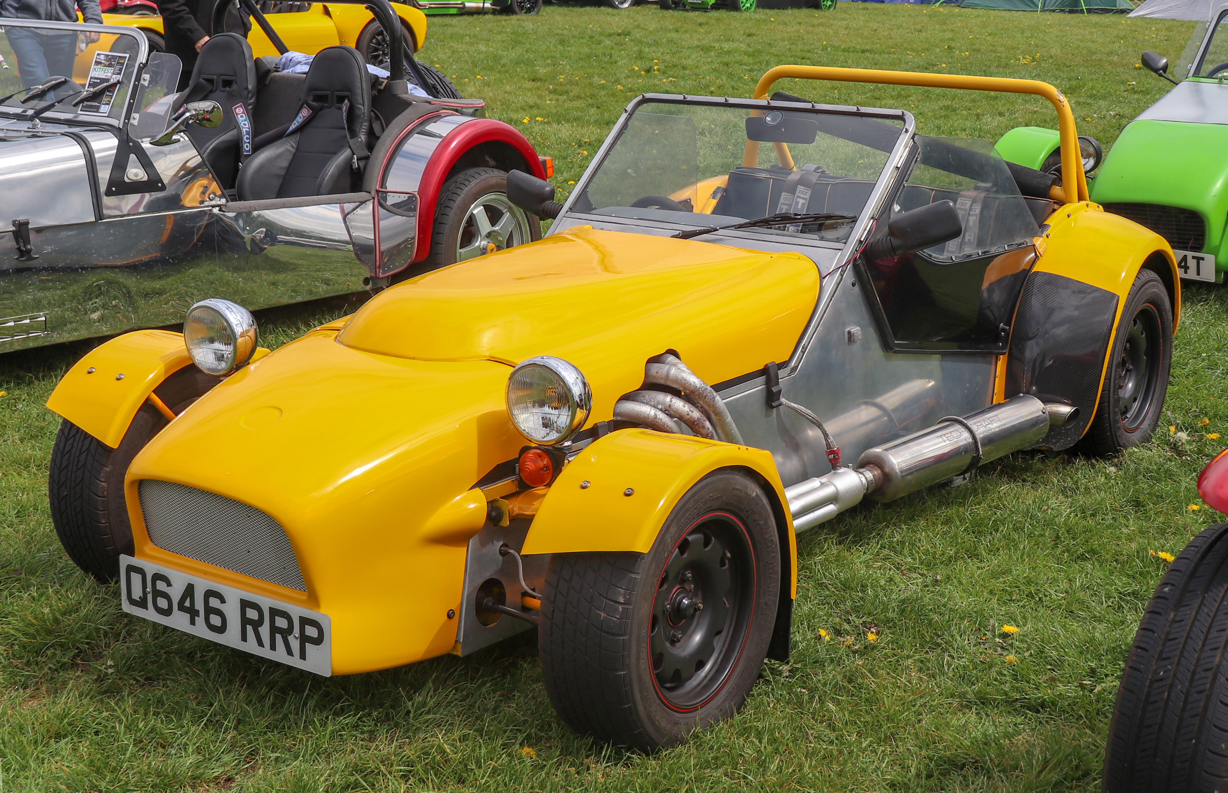 2000 Sylva Striker 1.4 Front Taken at the Stoneleigh National Kit Car Motor Show 2019